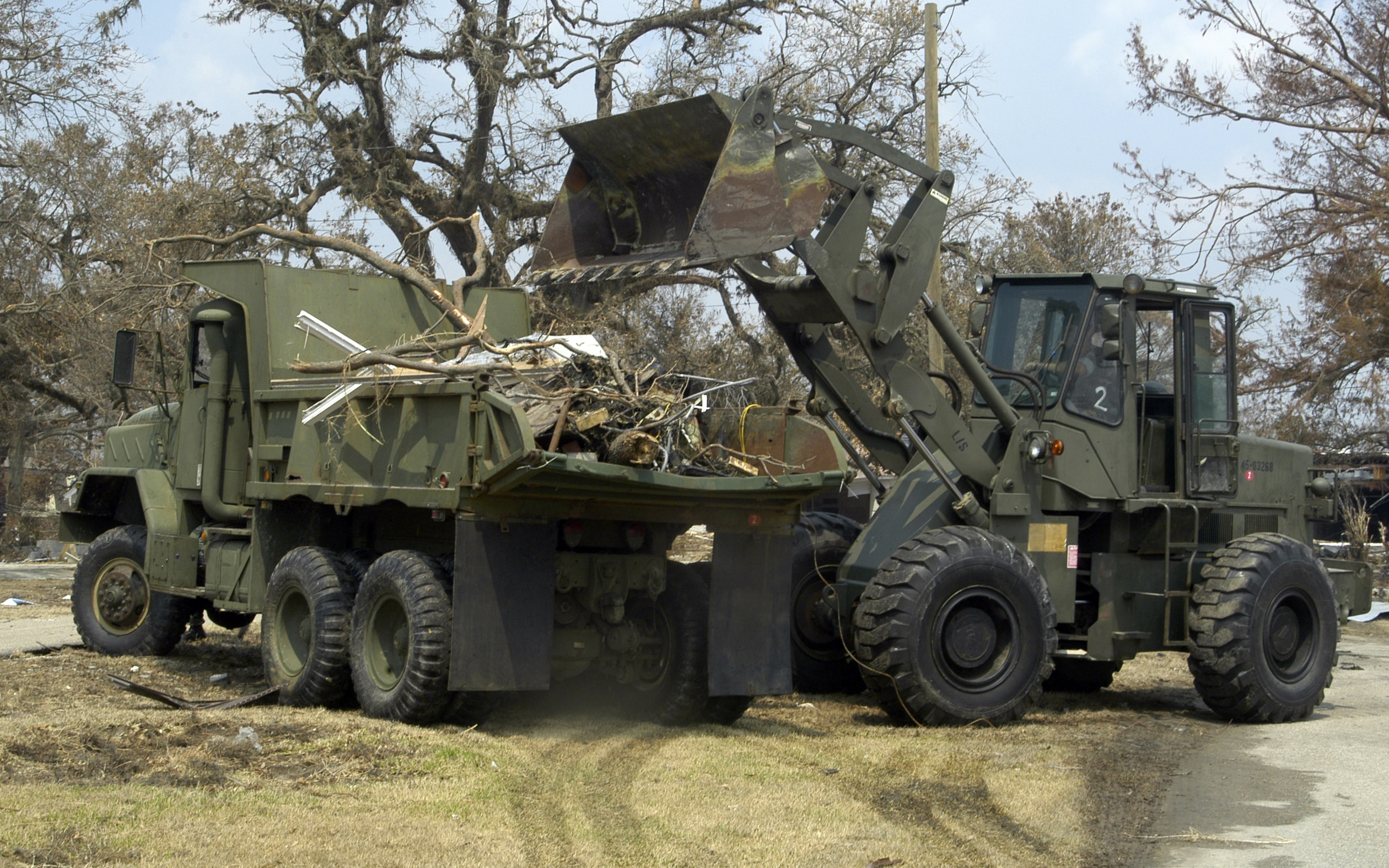 Biloxi, Miss. (Sept. 4, 2005) – A U.S. Navy Seabee bulldozer dumps Hurricane Katrina debris into a dump truck during clean-up efforts in Biloxi, Miss. The Navy's involvement in the Hurricane Katrina humanitarian assistance operations is led by the Federal Emergency Management Agency (FEMA), in conjunction with the Department of Defense. U.S. Navy photo by Photographer's Mate 3rd Class Christian Knoell (RELEASED)